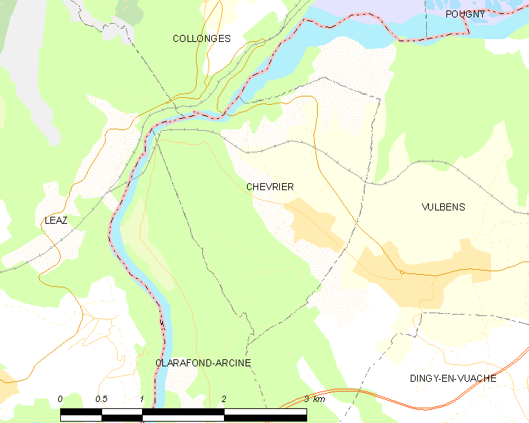 Map of French municipality Chevrier